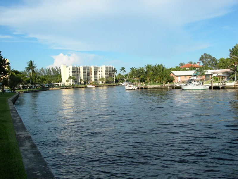 Hillsboro Canal, Boca Raton, Florida; taken August 18, 2005 by Daniel R. Tobias.